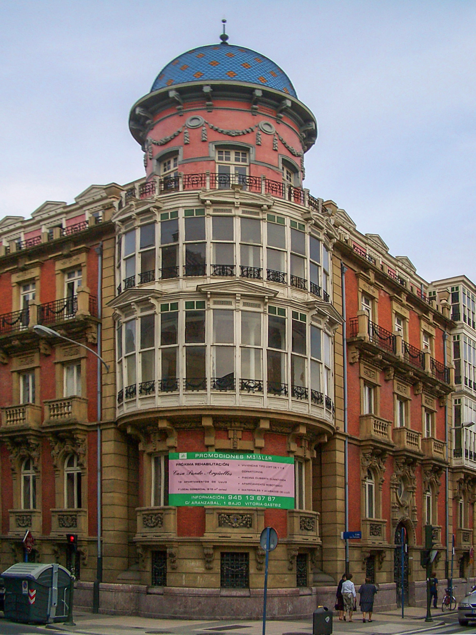 A building with a blue dome in Vitoria